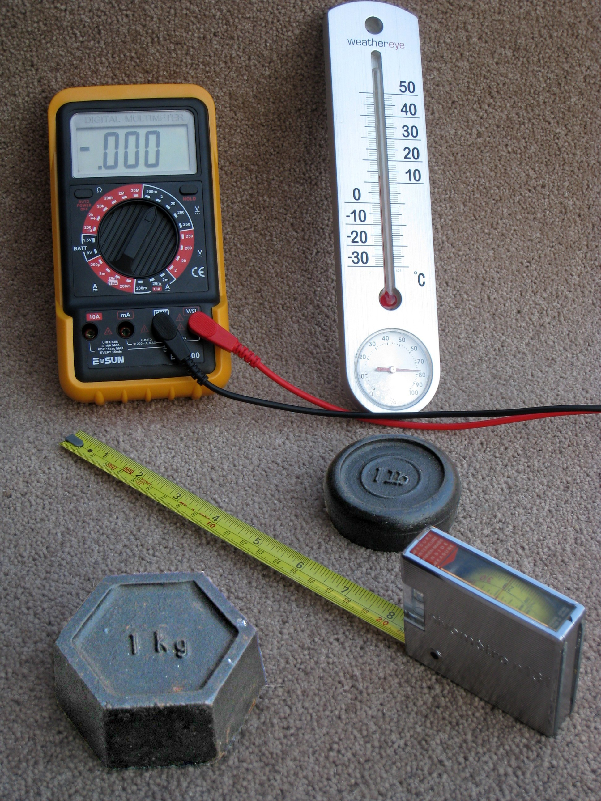 Selection of measuring devices purchased at British "High Street" outlets.